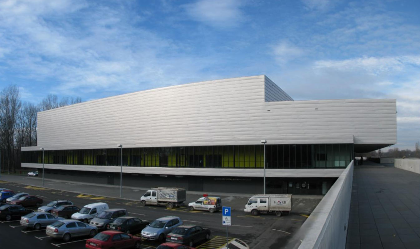 Varaždin Sport Hall